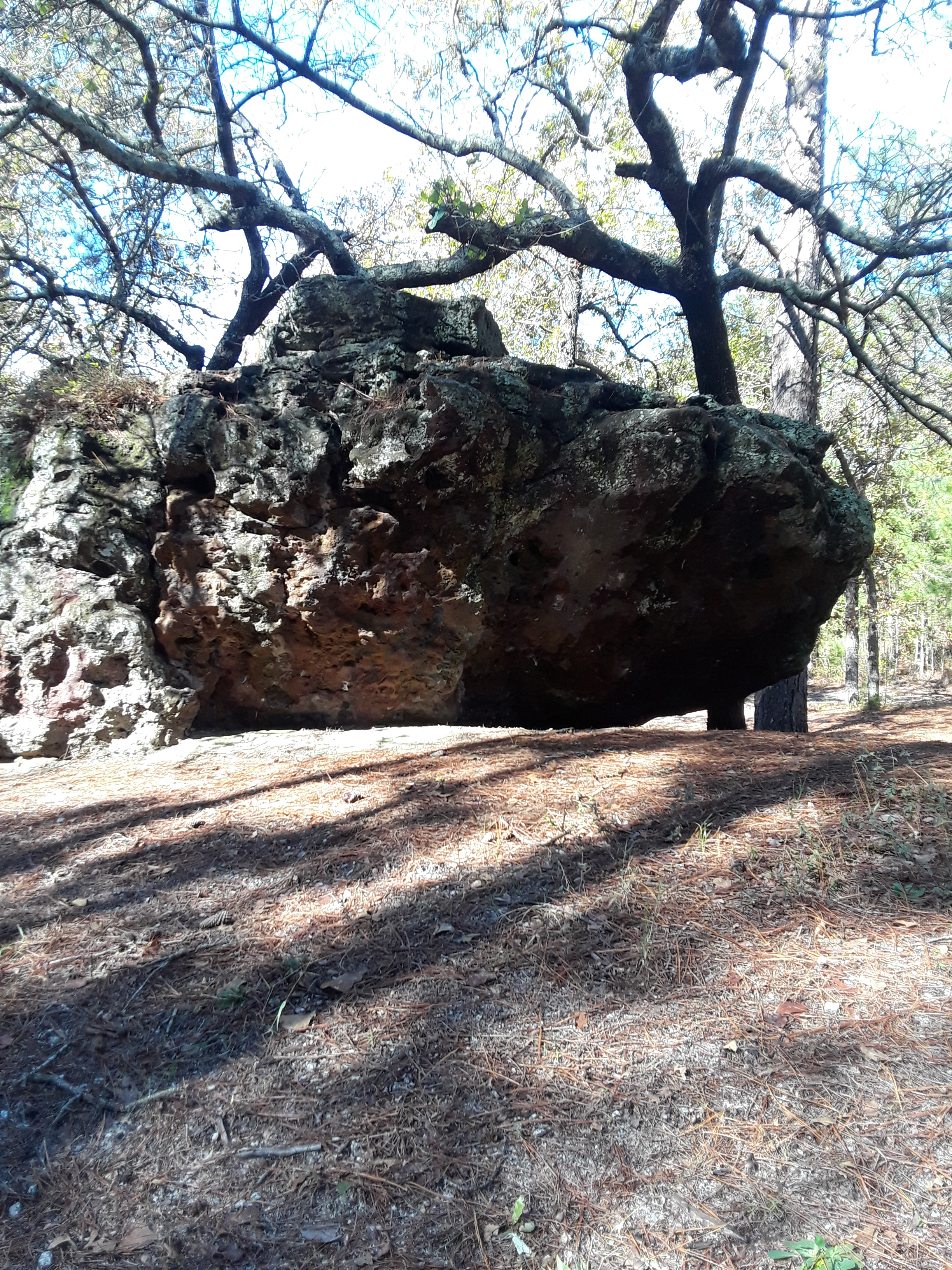 More ironstone, lava rock